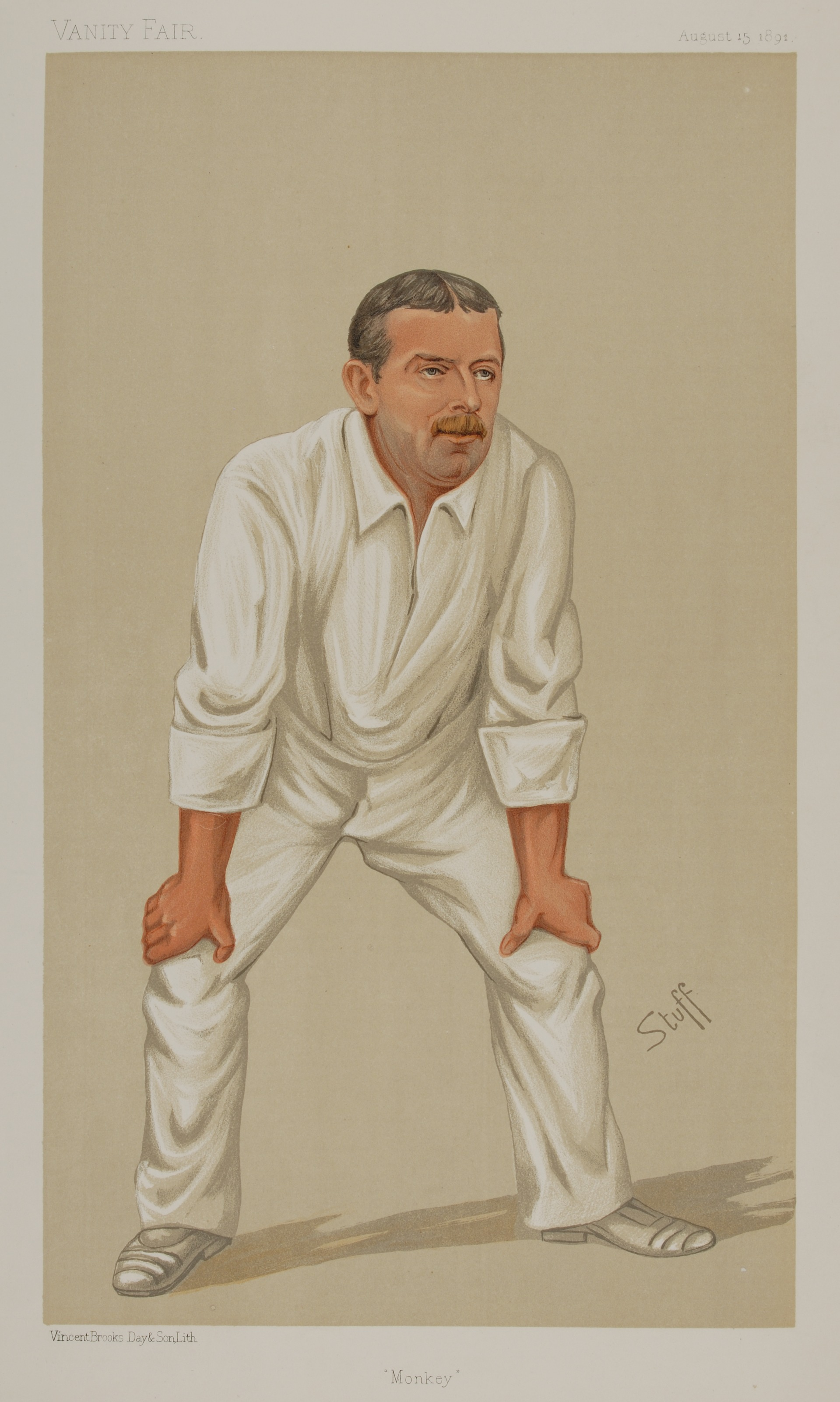 Men of the Day No. 513: Caricature of A.N. "Monkey" Hornby, English cricketer. Caption read: "Monkey".